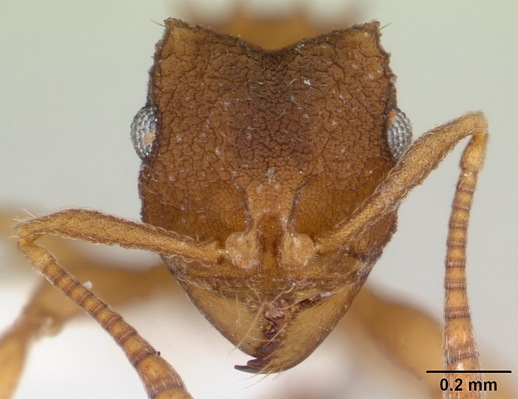 Mycocepurus smithii (Forel, 1893) Taxonomic Hierarchy: Subfamily: Myrmicinae Genus: Mycocepurus Taxonomic History (provided by Barry Bolton, 2009) smithii. Atta (Mycocepurus) smithii Forel, 1893g: 370 (w.) ANTILLES. Kempf, 1963b: 425 (q.). Combination in Mycocepurus: Wheeler, W.M. & Mann, 1914: 42. Senior synonym of attaxenus, bolivianus, borinquenensis, eucarnitae, manni, reconditus, tolteca, trinidadensis: Kempf, 1963b: 425. Specimen Code: CASENT0173989 Locality: Paraguay: Concepción: Kurusu de Isabel, 15 km N of Concepción; 23°20'00"S 057°20'00"W Collection Information: Collection codes: AW0596 Collected by: A.L. Wild Habitat: mixed citrus Date Collected: 6 Feb 1998 Specimen Information: Life Stage: 3w Located at: ALWC Owned by: ALWC